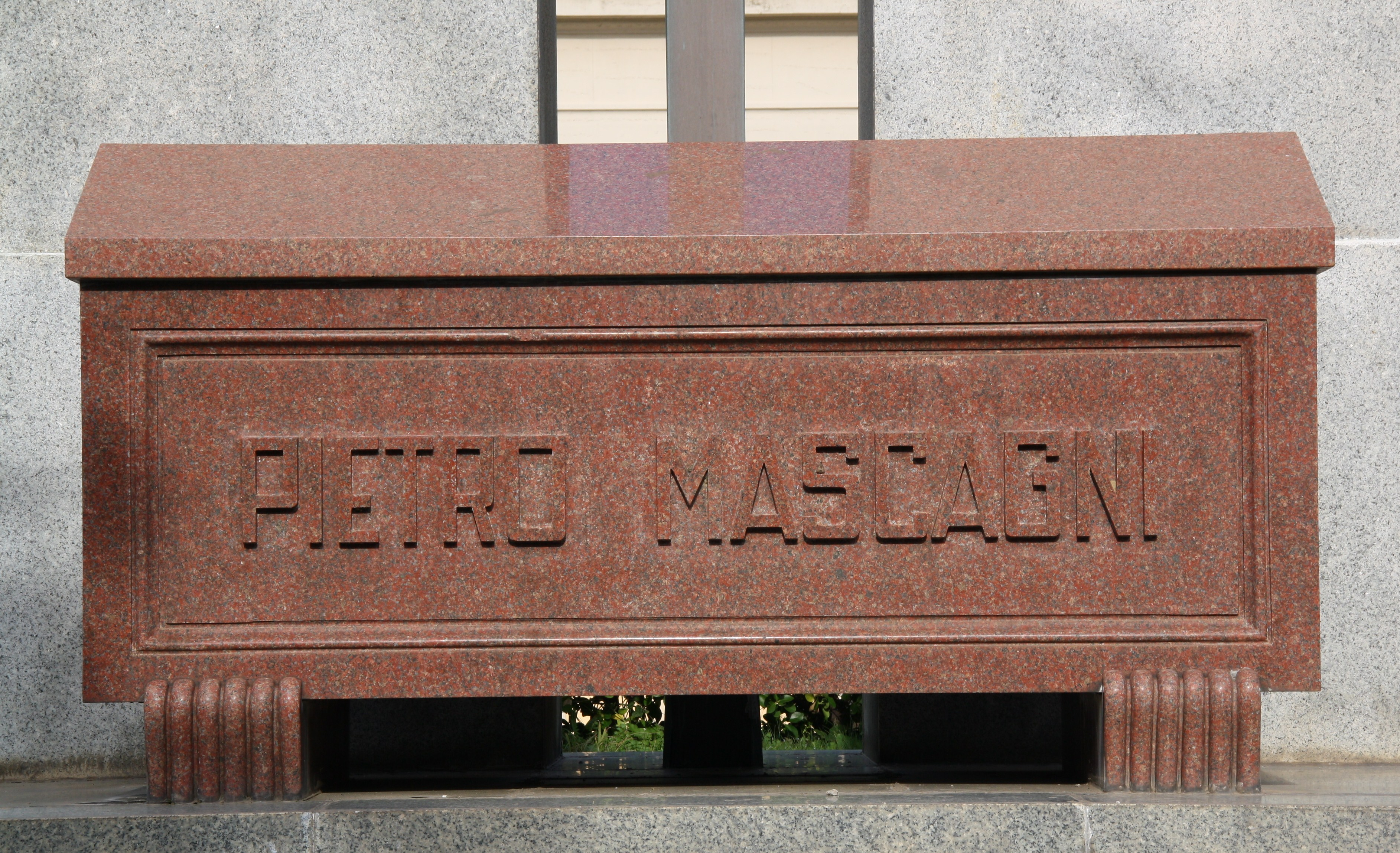 Italy, Livorno, Via dell’Ardenza, Cimitero della Misericordia, Mausoleo Pietro Mascagni. The gravestone of Pietro Mascagni situated inside the Cemetery of Mercy.